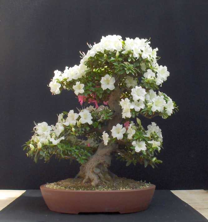 Bonsai Azalea flowering